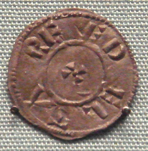 Athelstan_II_Guthrum_Viking_king_of_East_Anglia_880